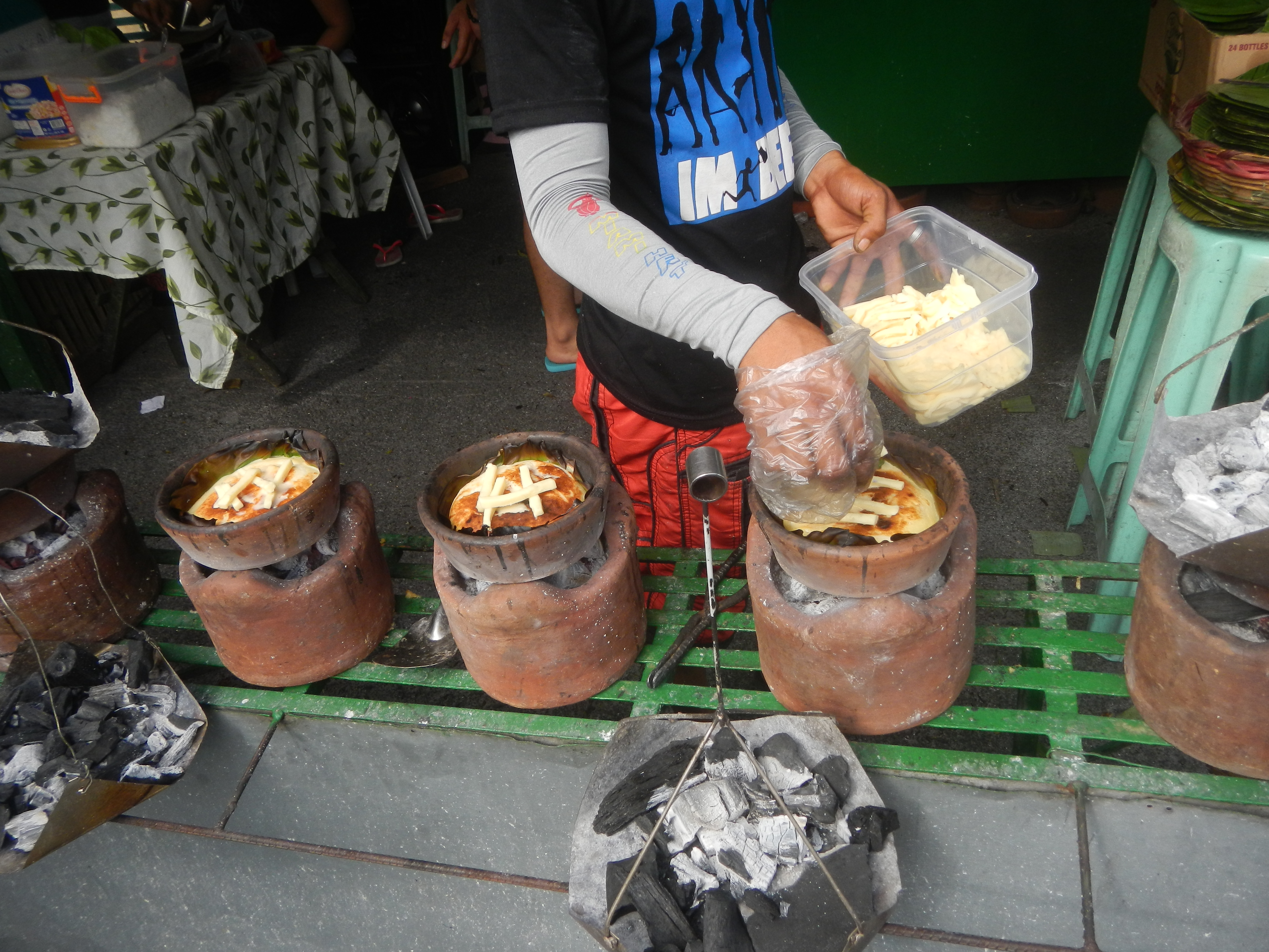 Bibingka and Puto bumbong making in Barangay Pagala 14°58'11"N 120°53'41"E from Poblacion 14°57'17"N 120°54'2"E Baliuag, Bulacan, Bulacan province (Note: Judge Florentino Floro, the owner, to repeat, Donor Florentino Floro of all these photos Judge Floro hereby donate gratuitously, freely and unconditionally all these photos to and for Wikimedia Commons, exclusively, for public use of the public domain, and again without any condition whatsoever).